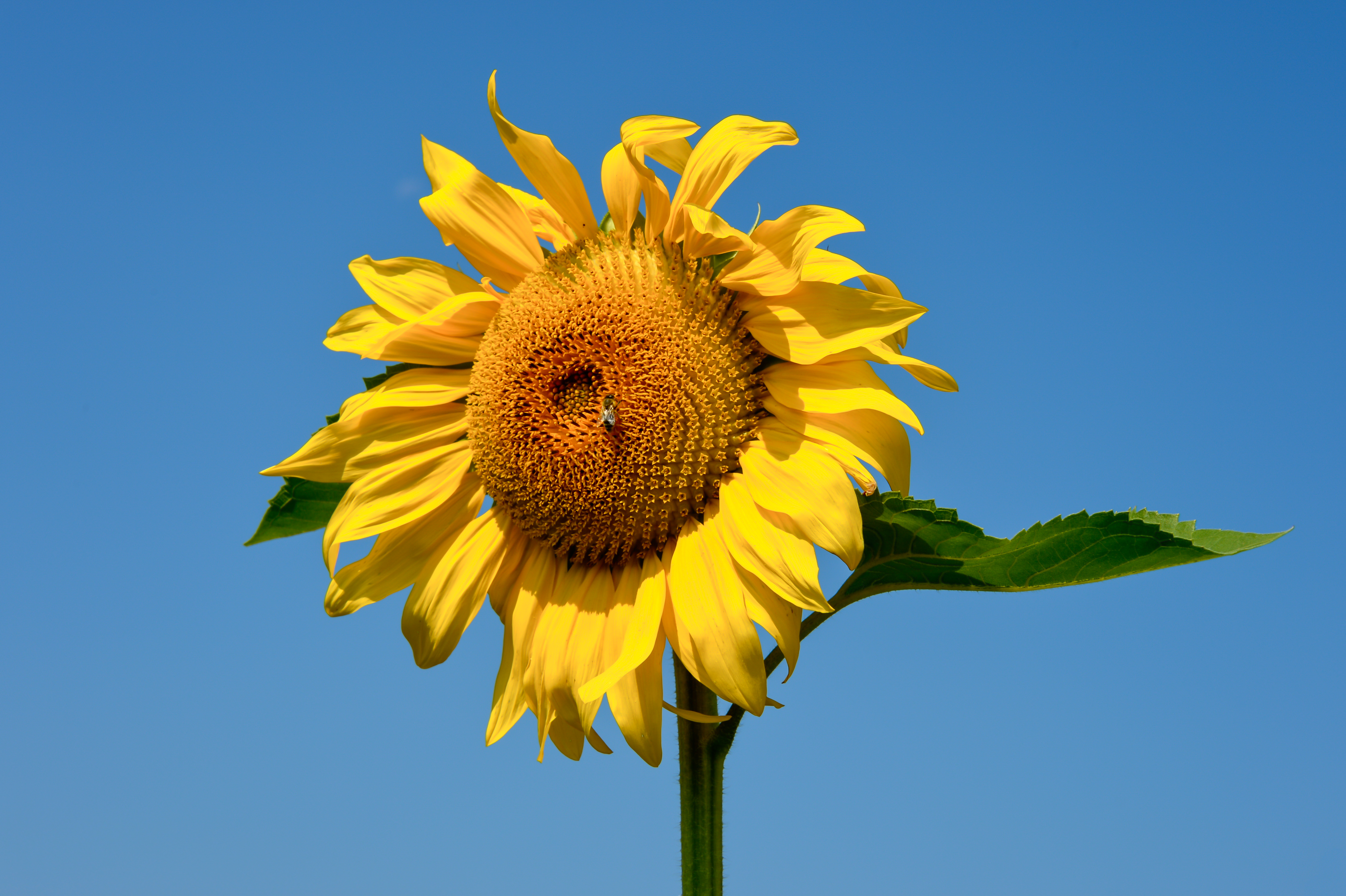 Sunflower at a field in Köcking, market town Eberndorf, district Völkermarkt, Carinthia, Austria, EU